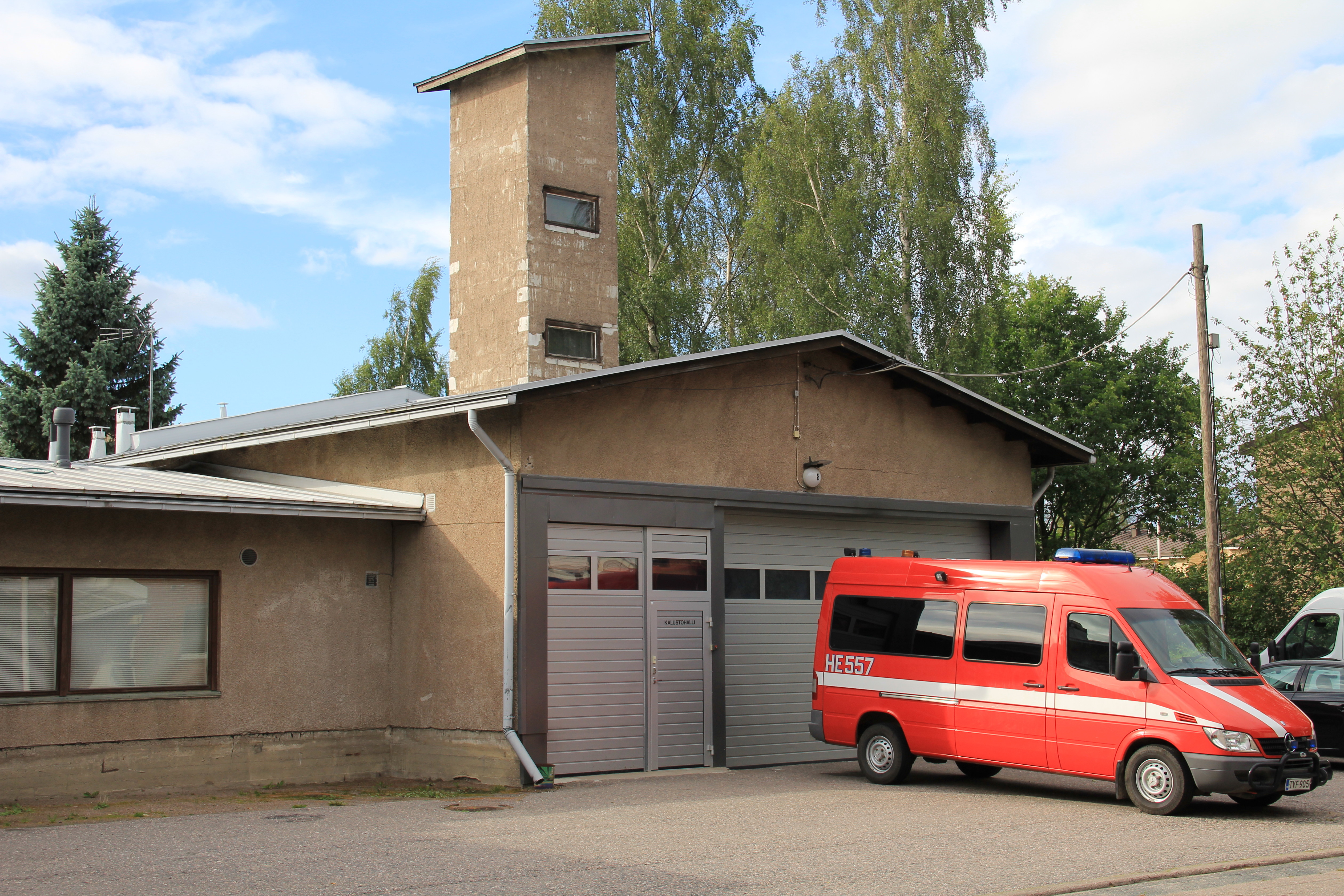 Malmi volunteer fire department's fire station, Malmi, Helsinki, Finland. - Van for firefighters transportation.